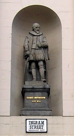 Statue of George Hutcheson in Glasgow. Photograph by User:Tony164